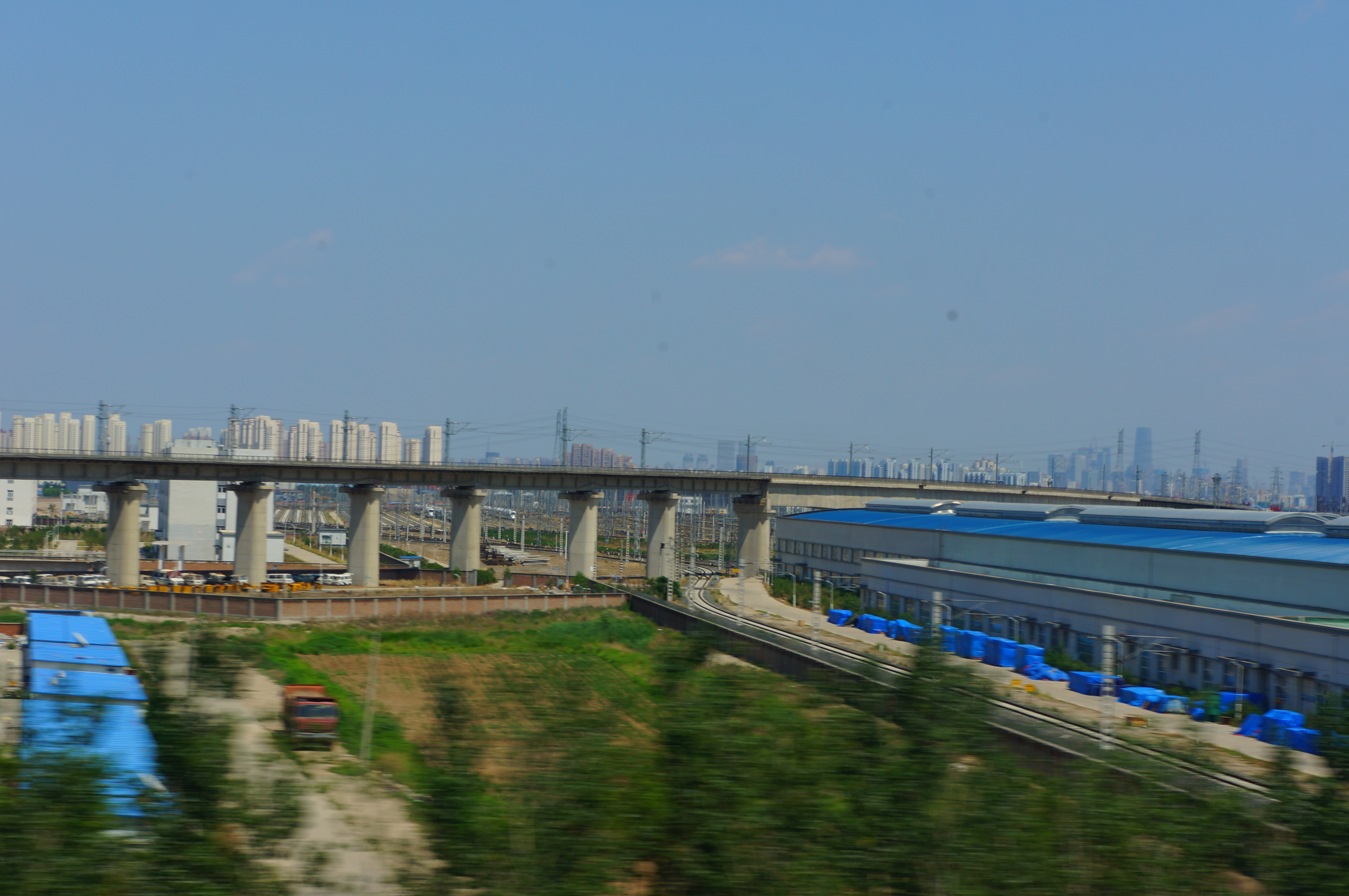 201606 Caozhuang EMU Depot